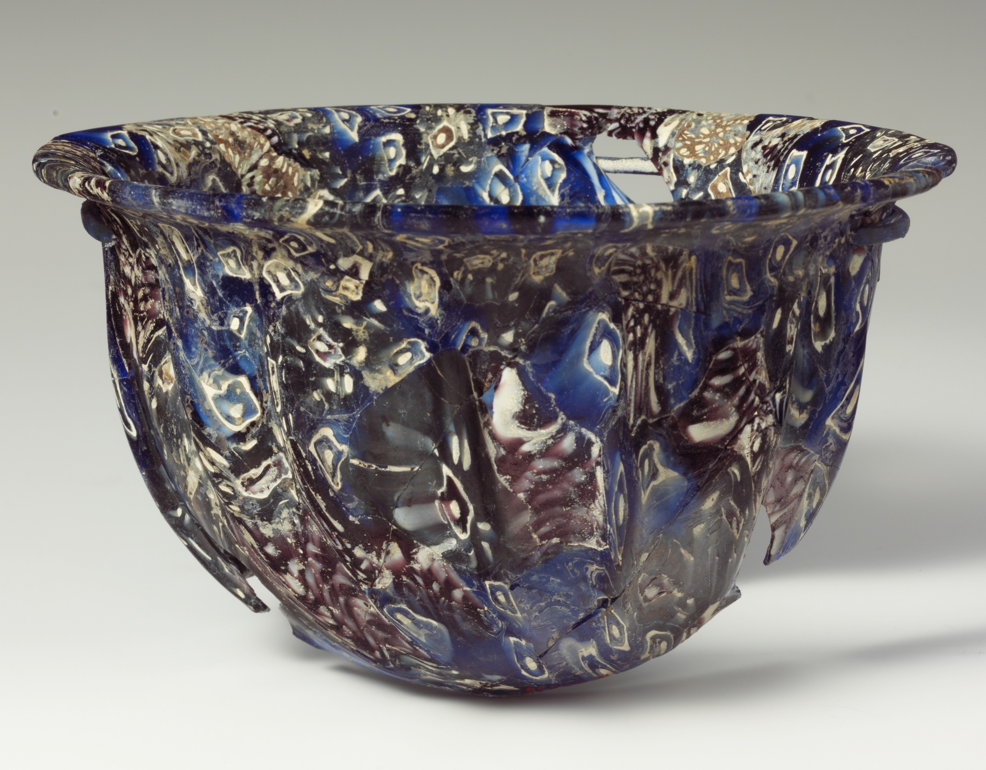 Roman, probably Italian; Bowl, mosaic, ribbed; Glass